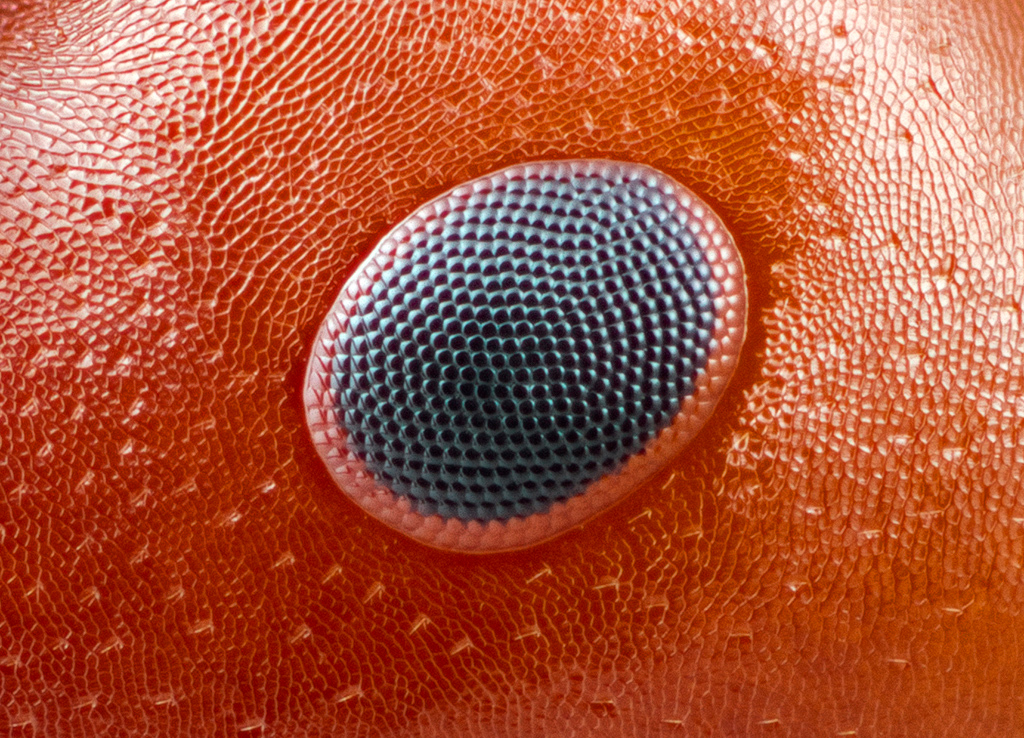 The compound eye of a carpenter ant. Hornsby Bend, Austin, Texas, USA.